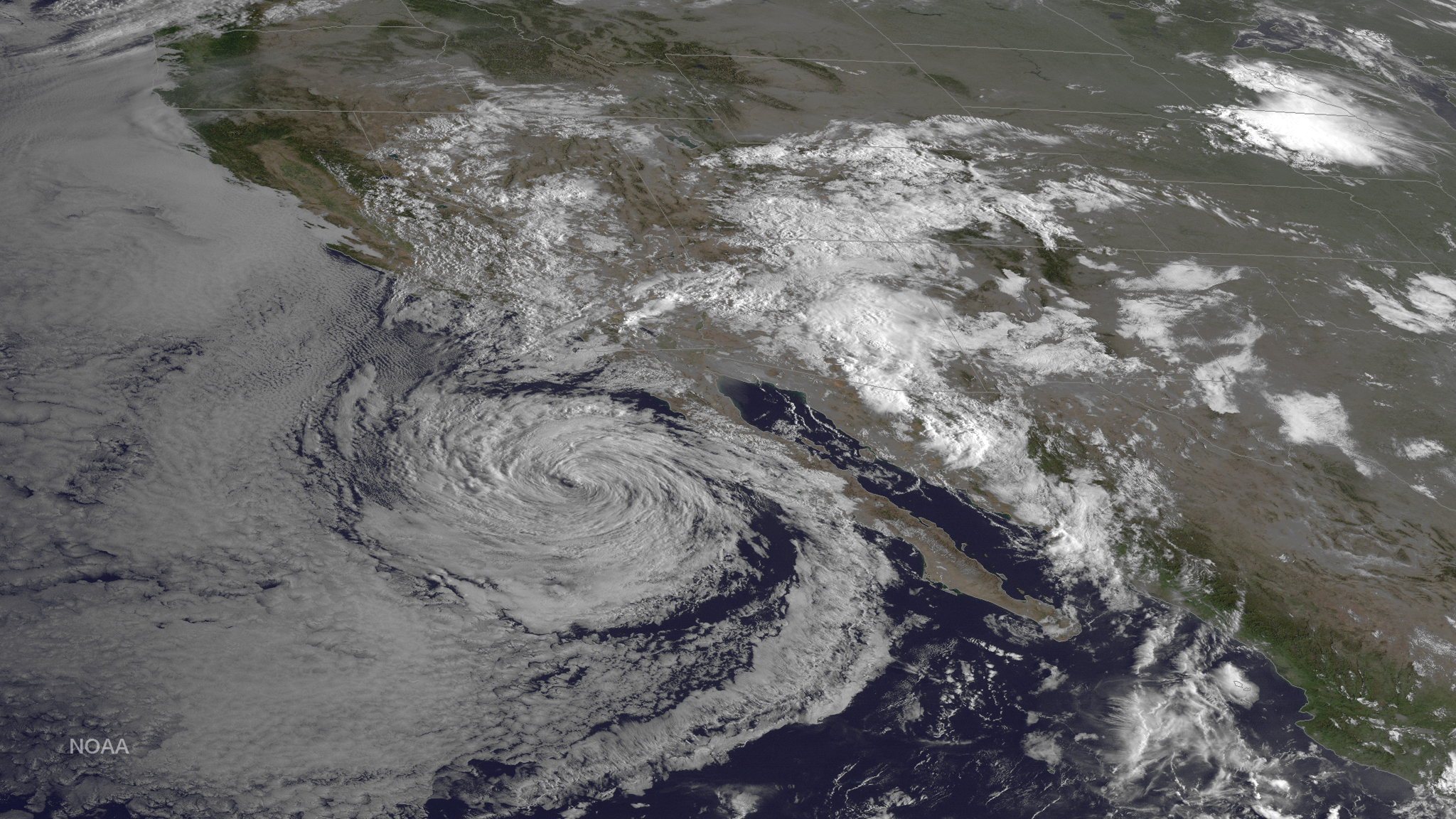 At the time of this image, monsoonal moisture associated with the remnants of Tropical Depression Norbert was expected to bring excessive rainfall across the Desert Southwest and Great Basin on Monday, bringing a threat of flash flooding across the region. Flash Flood Watches were in effect across the region. This image was taken by GOES West at 1500Z on September 8, 2014. –NOAA Staff